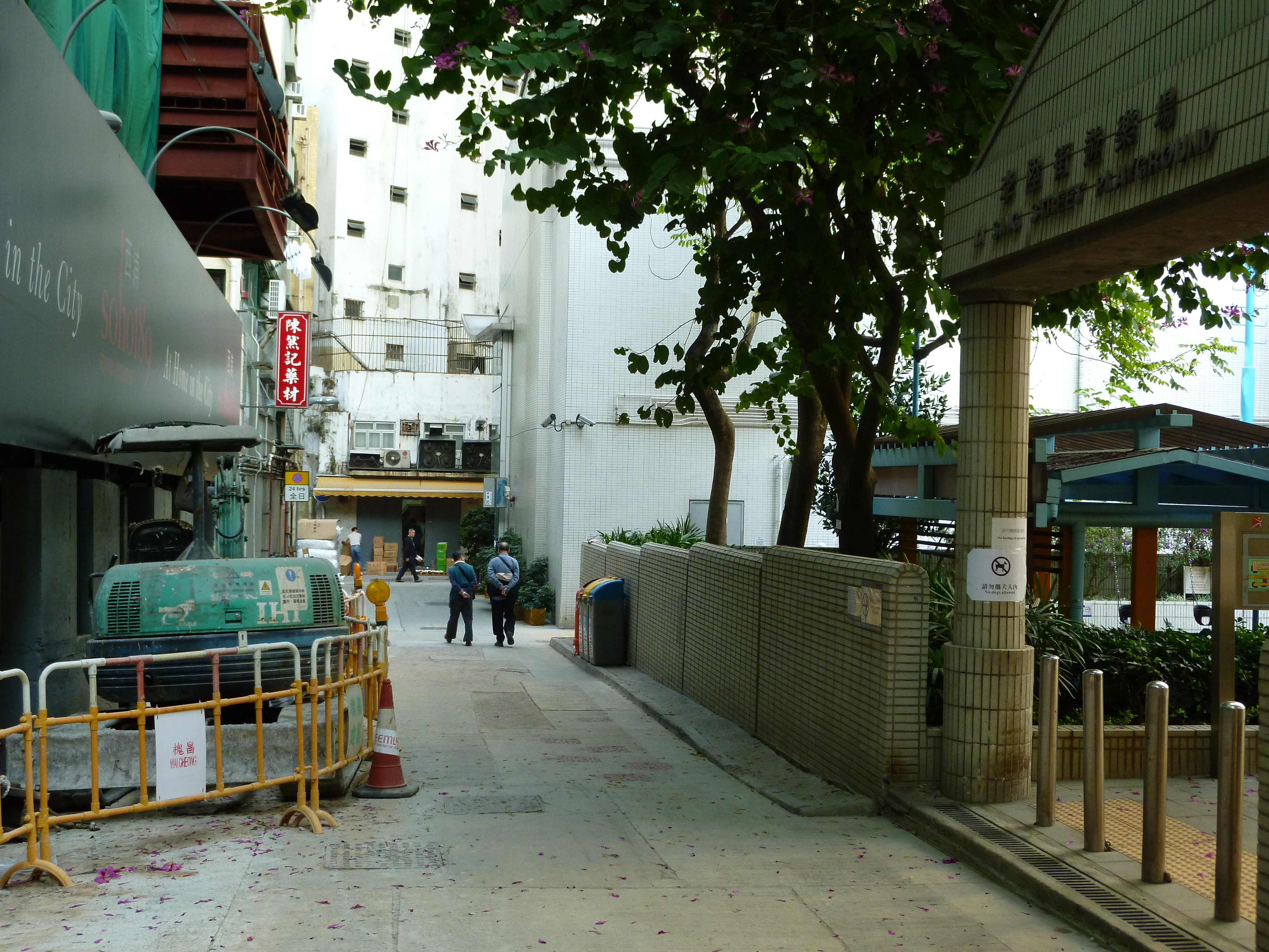 Li Sing Street, Hong Kong